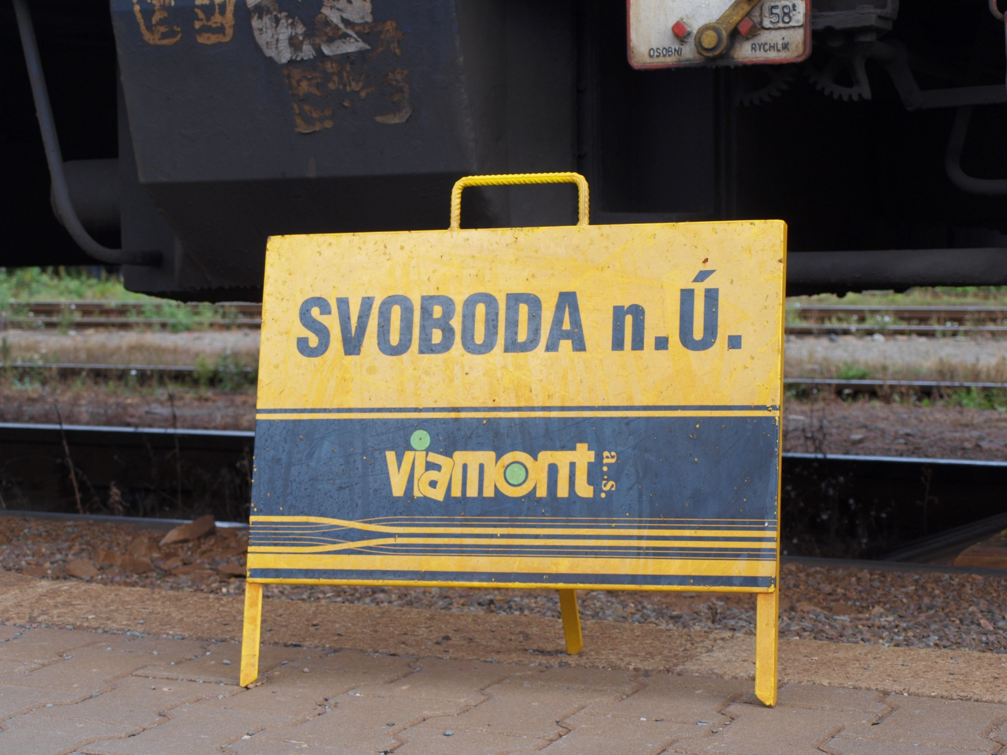 Notice at Trutnov main station